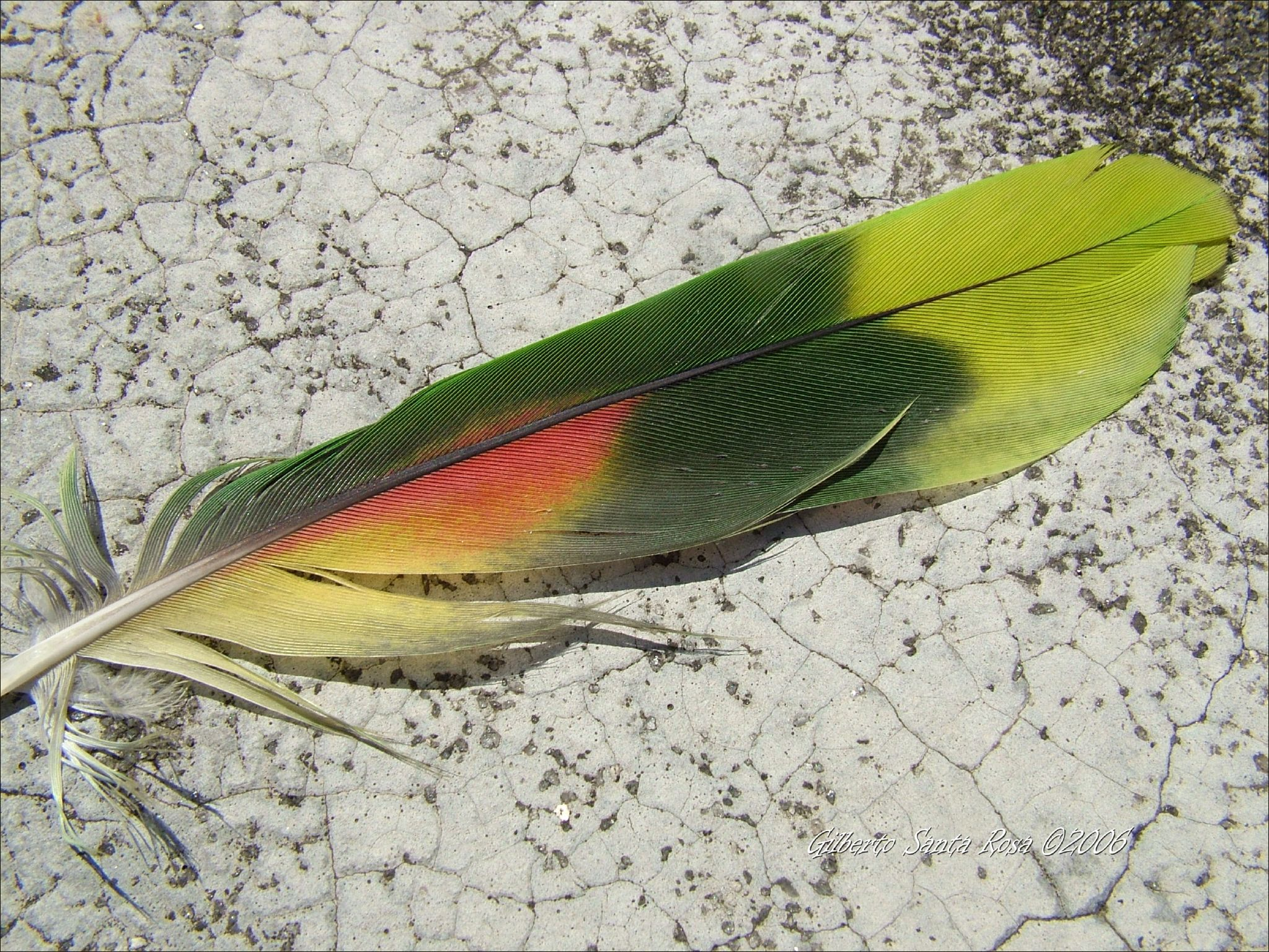 A feather from a pet Blue-fronted Amazon also called the Turquoise-fronted Amazon and Blue-fronted Parrot.